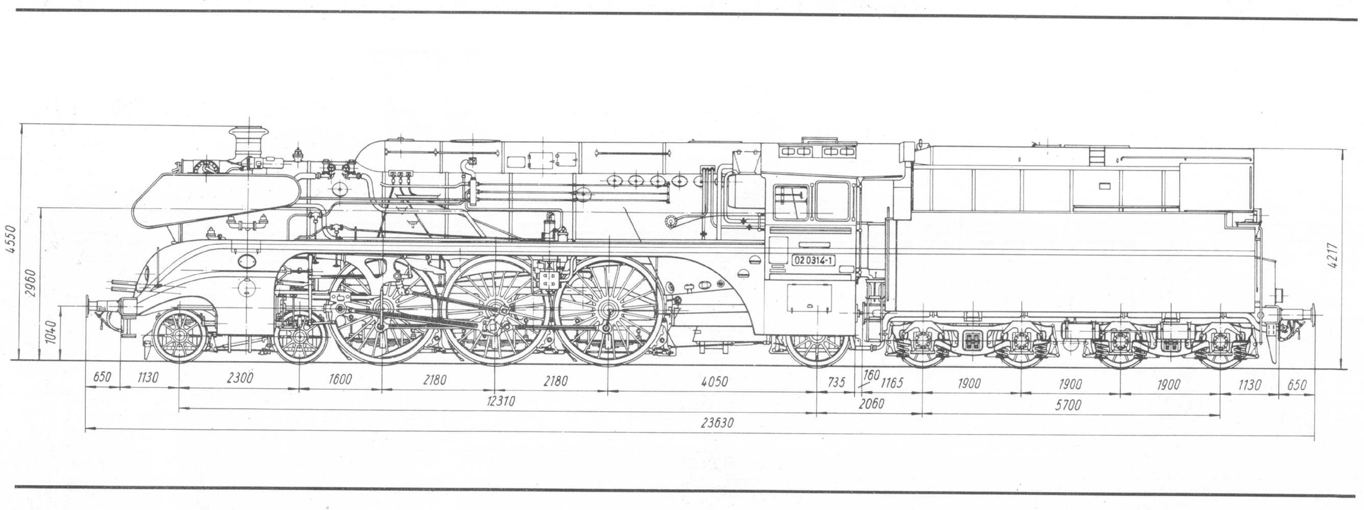 Sectional drawing of the steam locomotive number 02 0314-1 of the Deutsche Reichsbahn